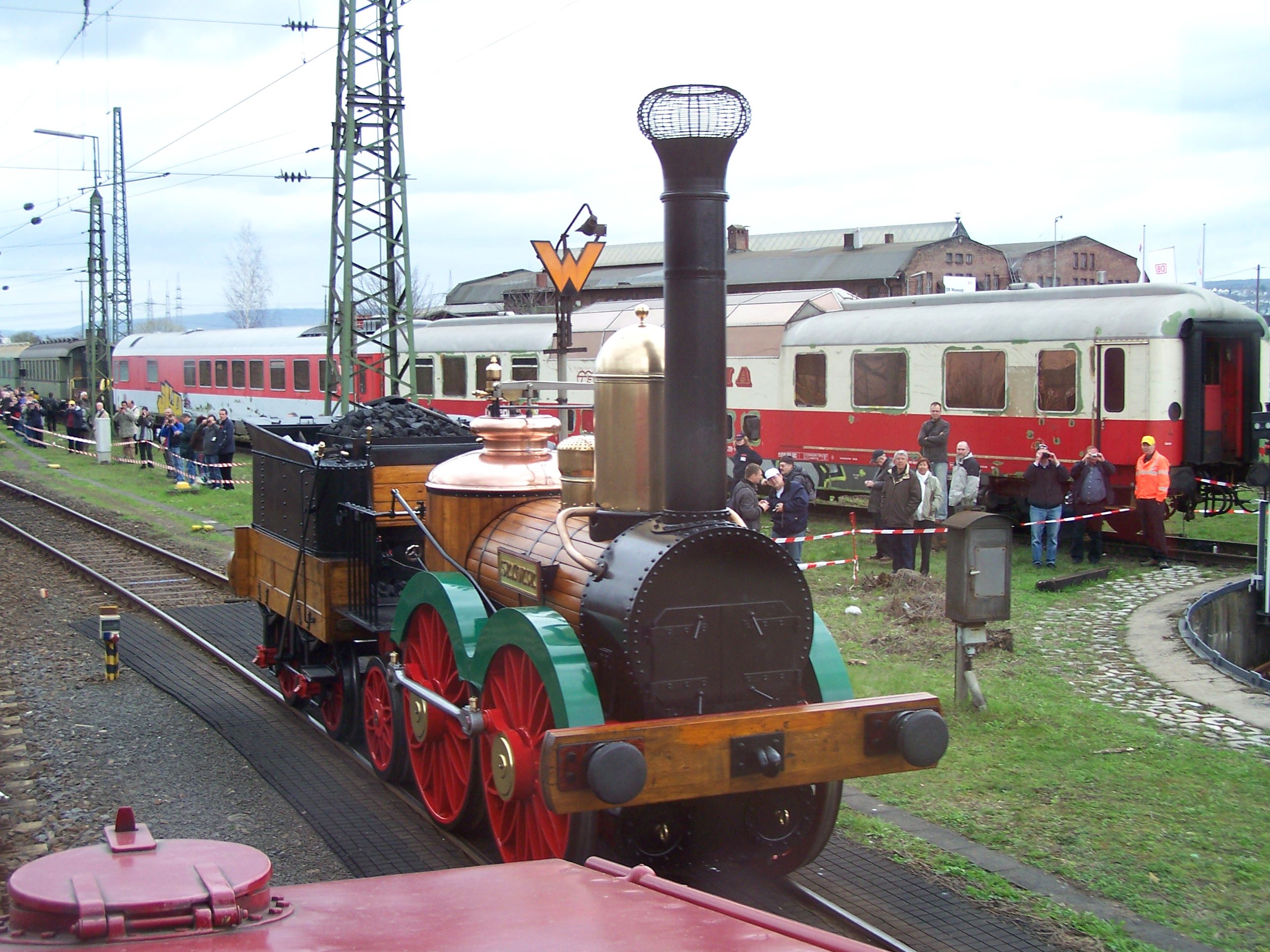 1989 replica of first steam locomotive built in Germany “Saxonia” in front of a former Rheingold-Express Dome car at the DB Museum in Koblenz-Lützel, a local branch of the Transport Museum in Nuremberg, seen from the drivers cab of the historical DB electrical locomotive E69 03, April 2010